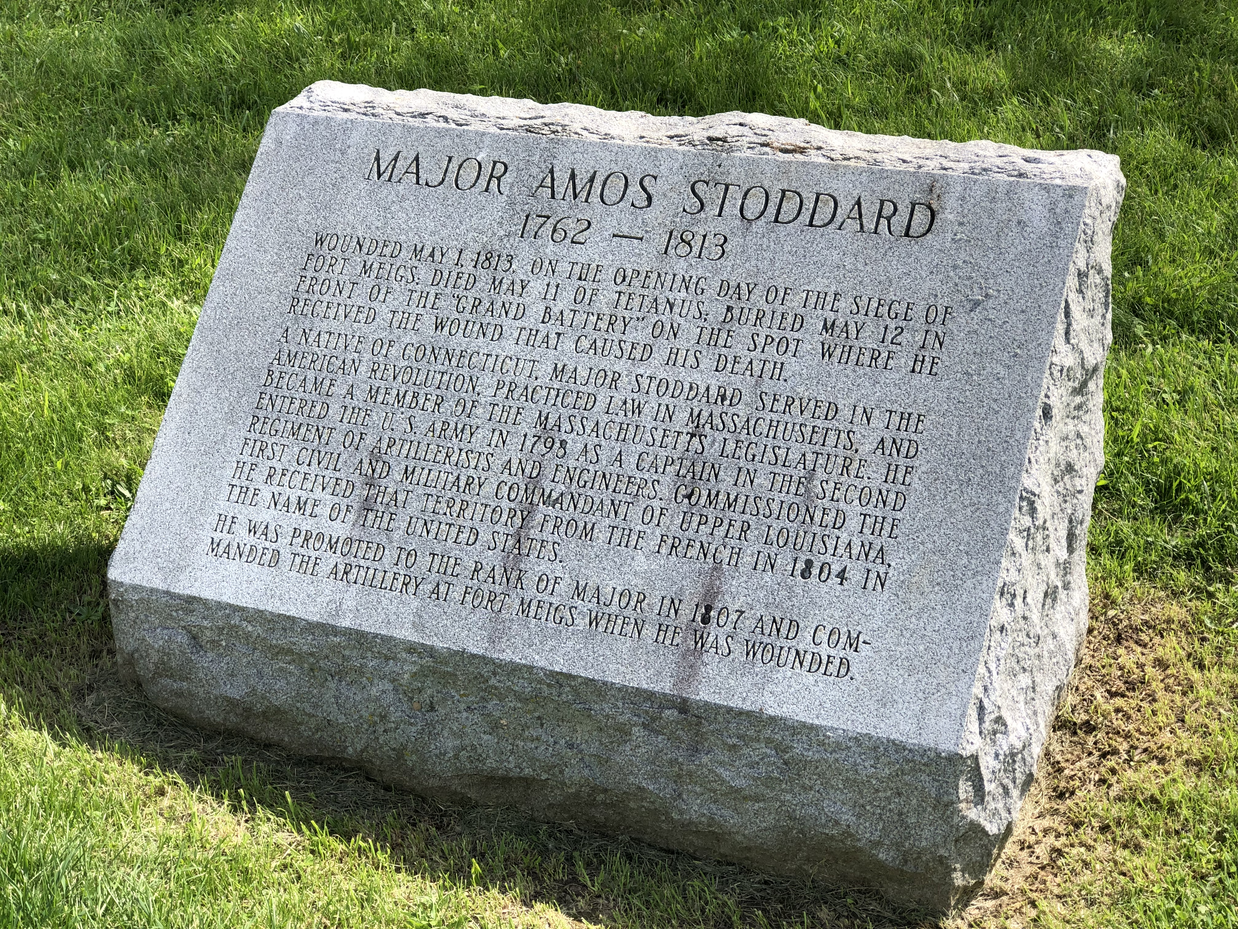 Memorial to Major Amos Stoddard at Fort Meigs